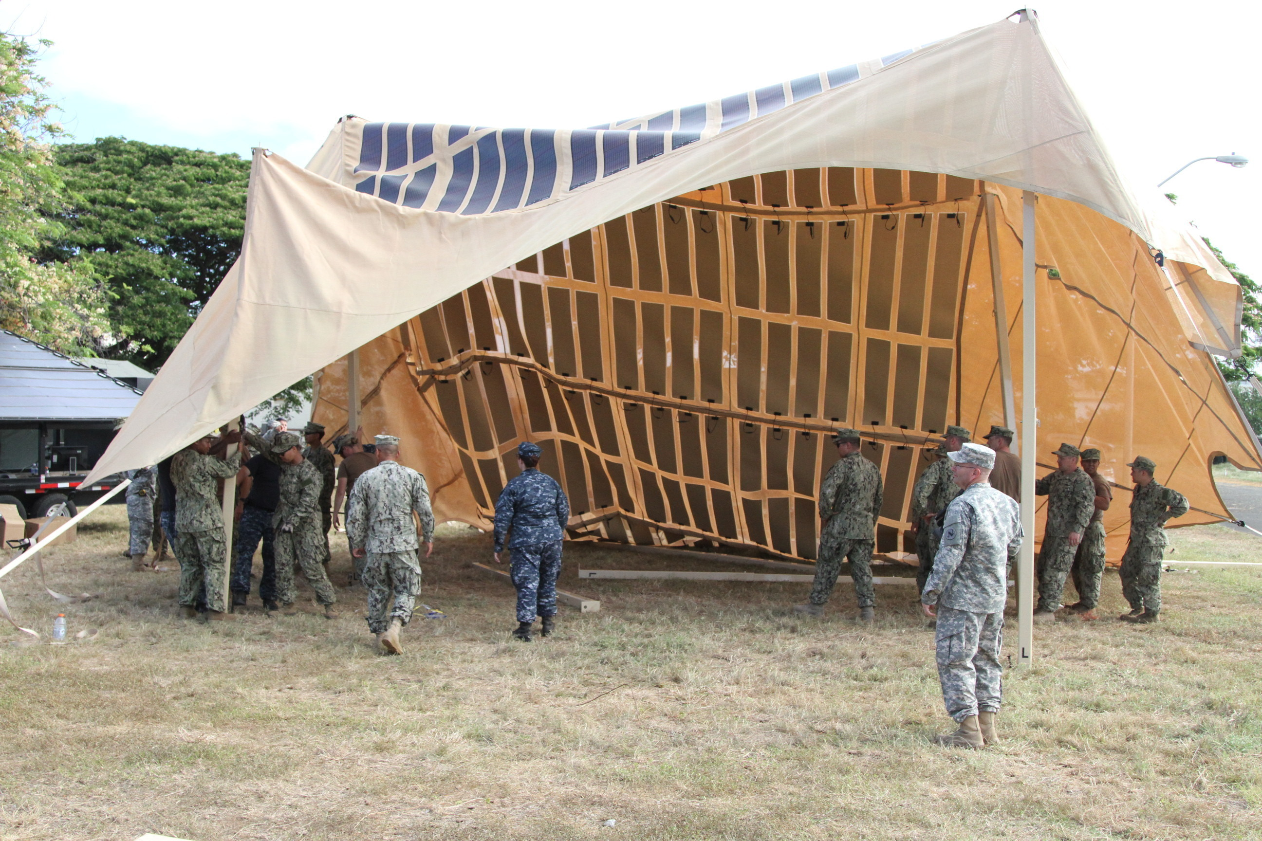 U.S. Army Pacific and U.S. Army Corps of Engineers Soldiers along with other support elements, work on erecting a solar shade canopy during the setup of a humanitarian aid and disaster relief event for Rim of the Pacific training exercise at Ford Island, July 7. Besides providing shade and energy, the solar shade reduces the heat signature of the equipment setup underneath it. Twenty-two nations, more than 40 ships and submarines, about 200 aircraft and 25,000 personnel are participating in Exercise RIMPAC from June 26 to Aug. 1 in and around the Hawaiian Islands and Southern California. The world's largest international maritime exercise, RIMPAC provides a unique training opportunity that helps participants foster and sustain the cooperative relationships that are critical to ensuring the safety of sea lanes and security on the world's oceans. RIMPAC 2014 is the 24th exercise in the series that began in 1971. (U.S. Army photo by Staff Sgt. Kyle J. Richardson, USARPAC PAO)